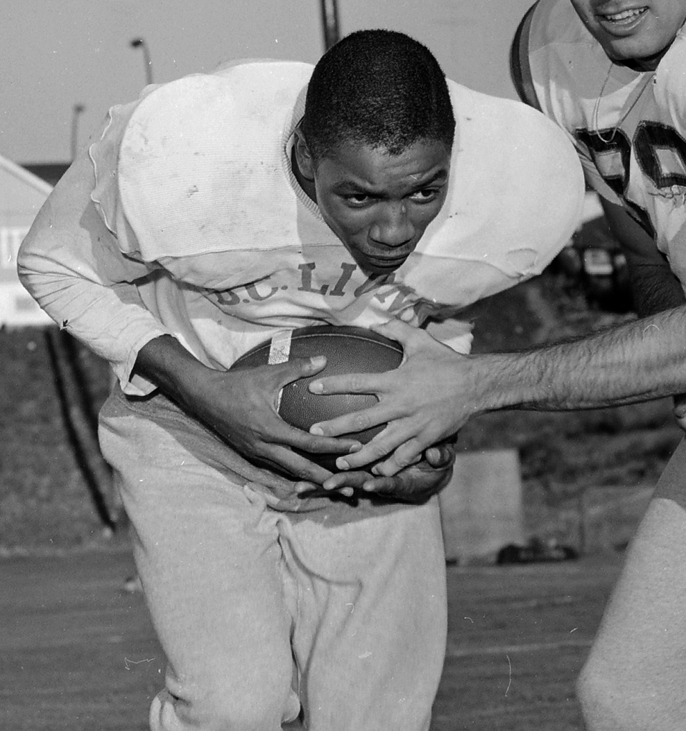 B.C. Lions football player, Joe Kapp VPL Accession Number: 44011 Date: 1960 Photographer/Studio: Province Newspaper Content: Willie Fleming named to the all-star team Topic: Sports Football Portrait Person: Fleming, Willie Kapp, Joe Organization: B.C. Lions Football Club Location: British Columbia - Vancouver More information on our historical photograph collection